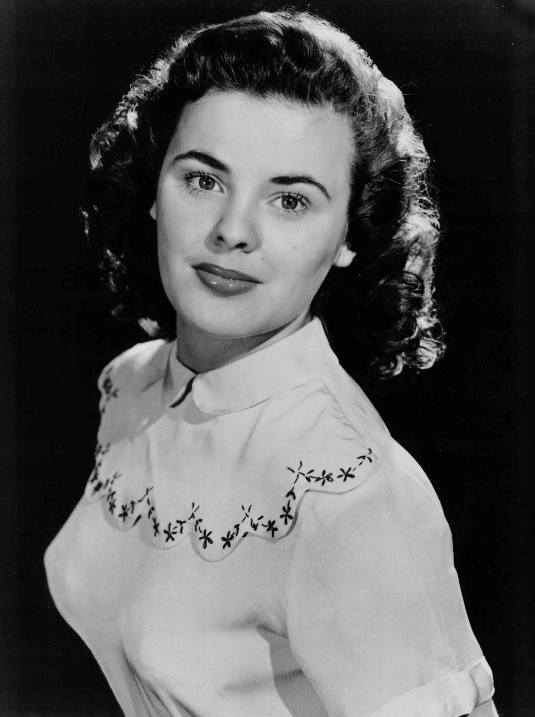 Photo of actress Kathleen Crowley from an appearance on Kraft Television Theatre